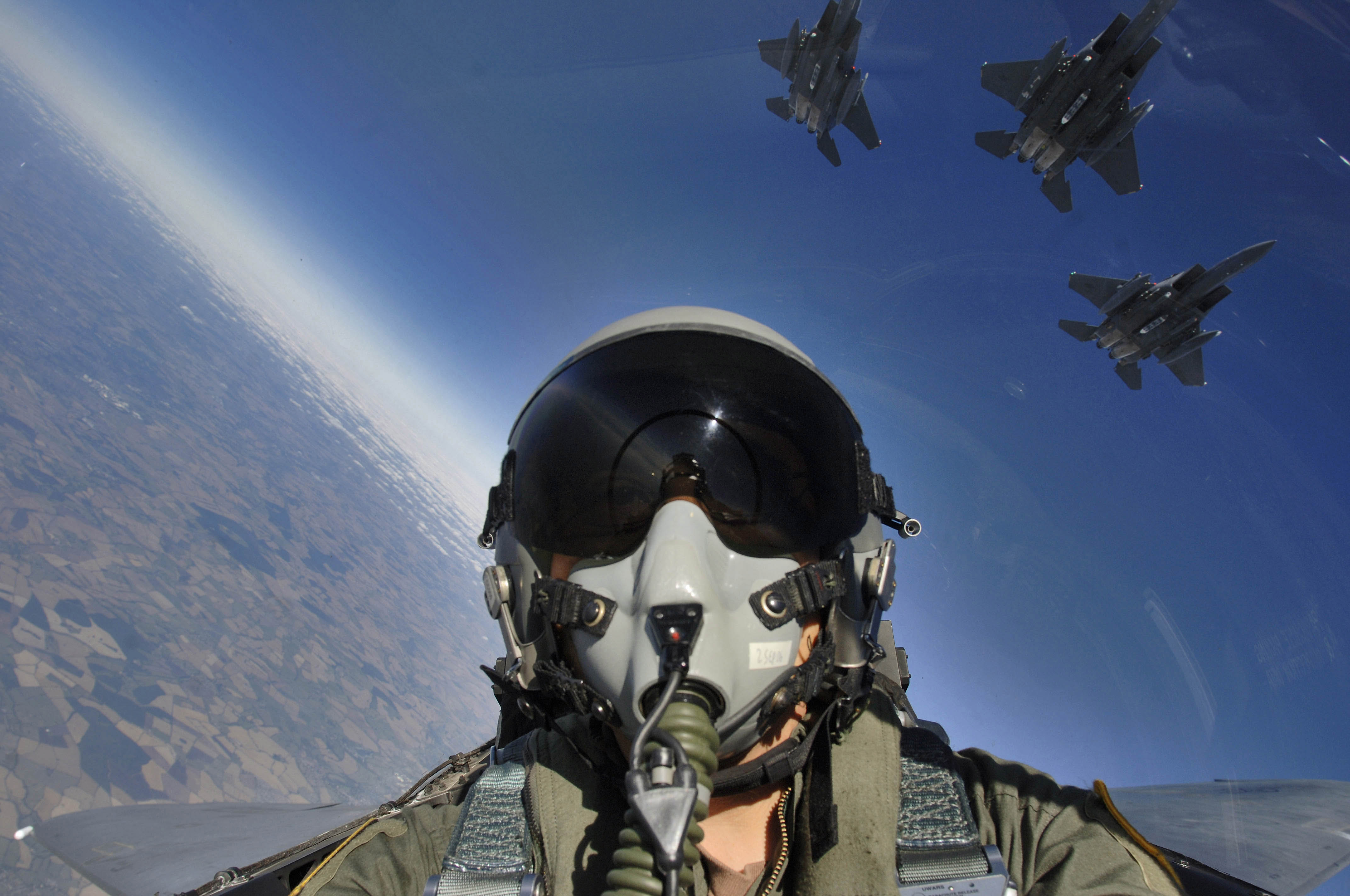 U.S. Air Force Master Sgt. Lance Cheung photographs himself and a three-ship formation of F-15E Strike Eagle aircraft from Royal Air Force Lakenheath, England, on Aug. 3, 2006. The Strike Eagles are attached to the 492nd Fighter Squadron and are practicing basic surface attack techniques. Cheung is a photojournalist for the Air Force News Agency in San Antonio, Texas.